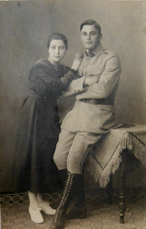 Ludwik Marian Kaźmierczak in the uniform of Haller's Army with his fiancée Margarethe. They were the grandparents of German Chancellor Angela Merkel.